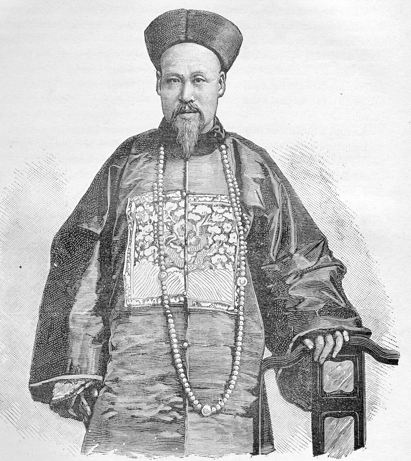 Portrait of Marquis Zeng Jize